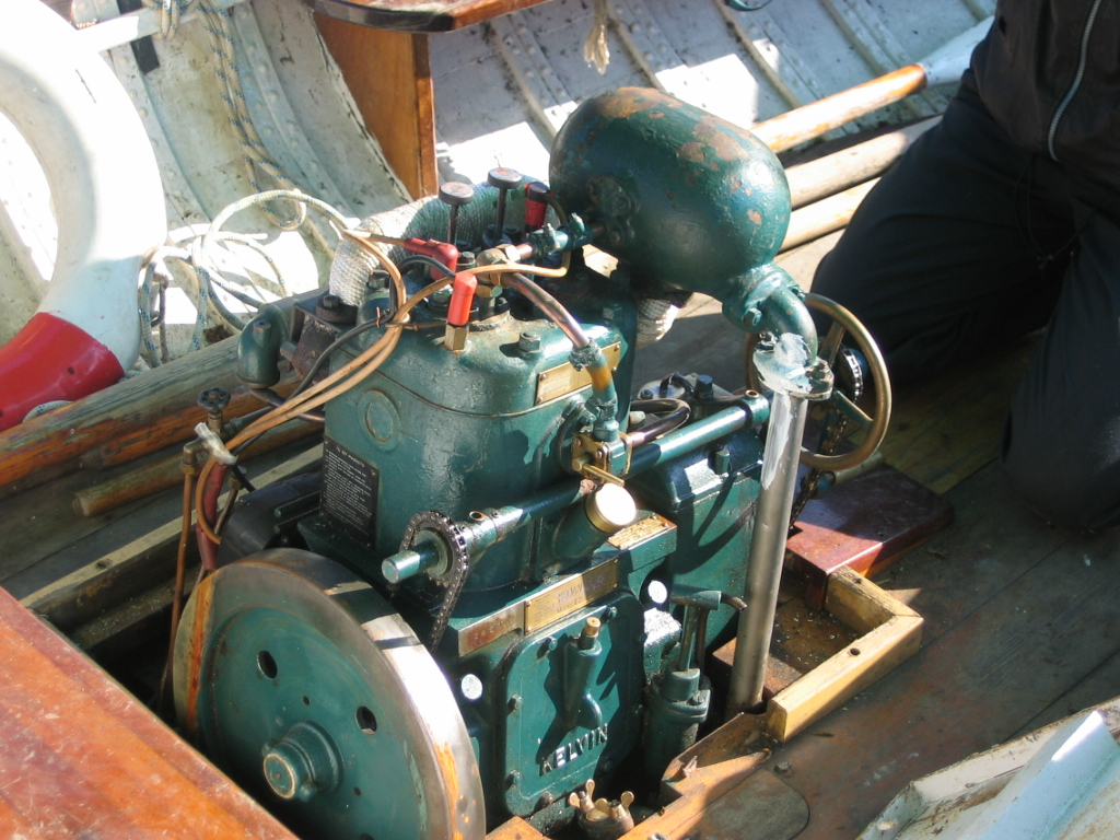 Kelvin Diesel engine, Edinburgh Canal Society, Edinburgh, Scotland